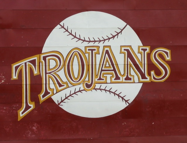 Photo of Tara Trojans logo taken of the baseball outfield fence. Built and painted in fall of 2001. Logo painted by the late Mr. Randall.